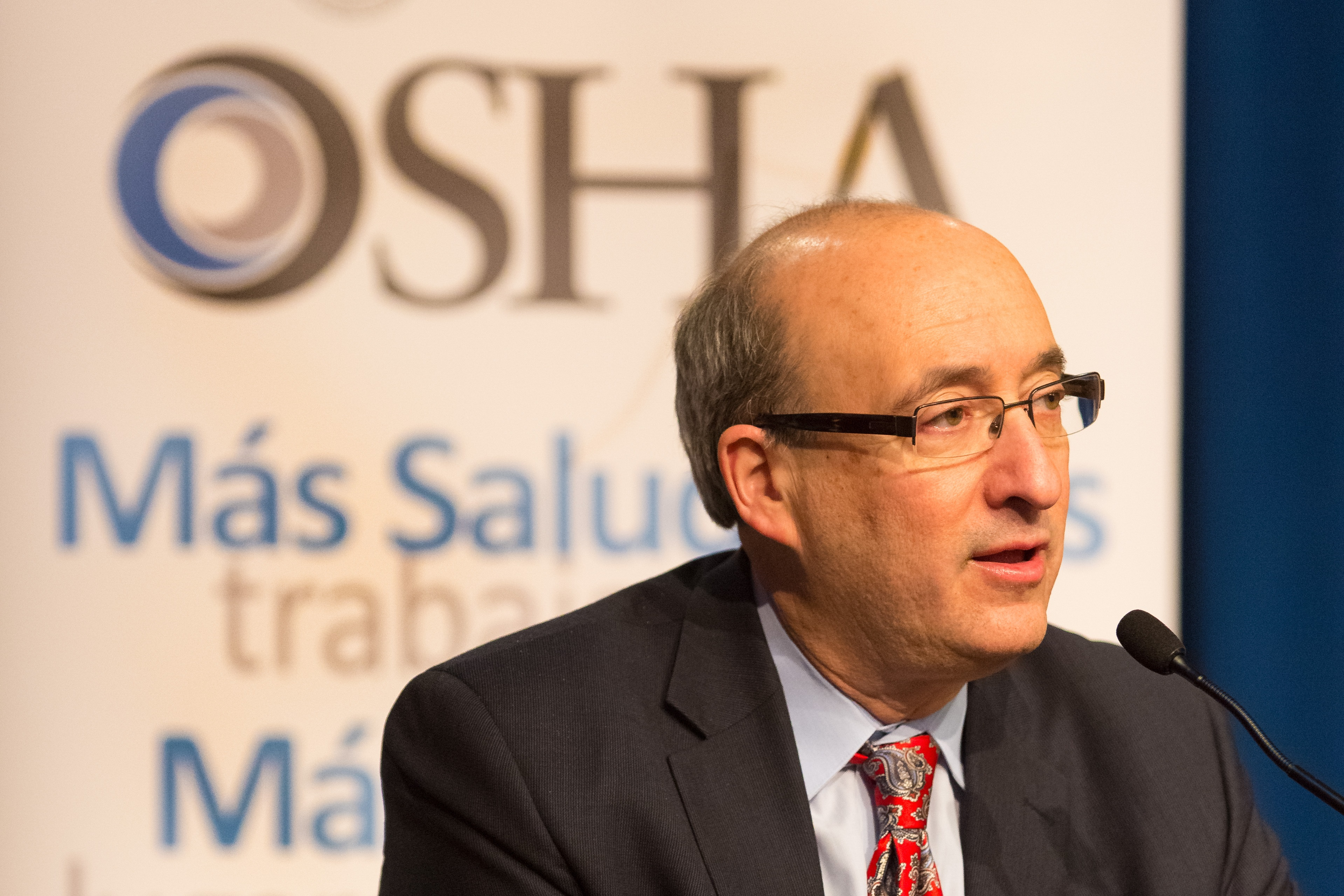 11th February 2014 - Washington, DC - Dr. David Michaels Host OSHA all hands meeting.